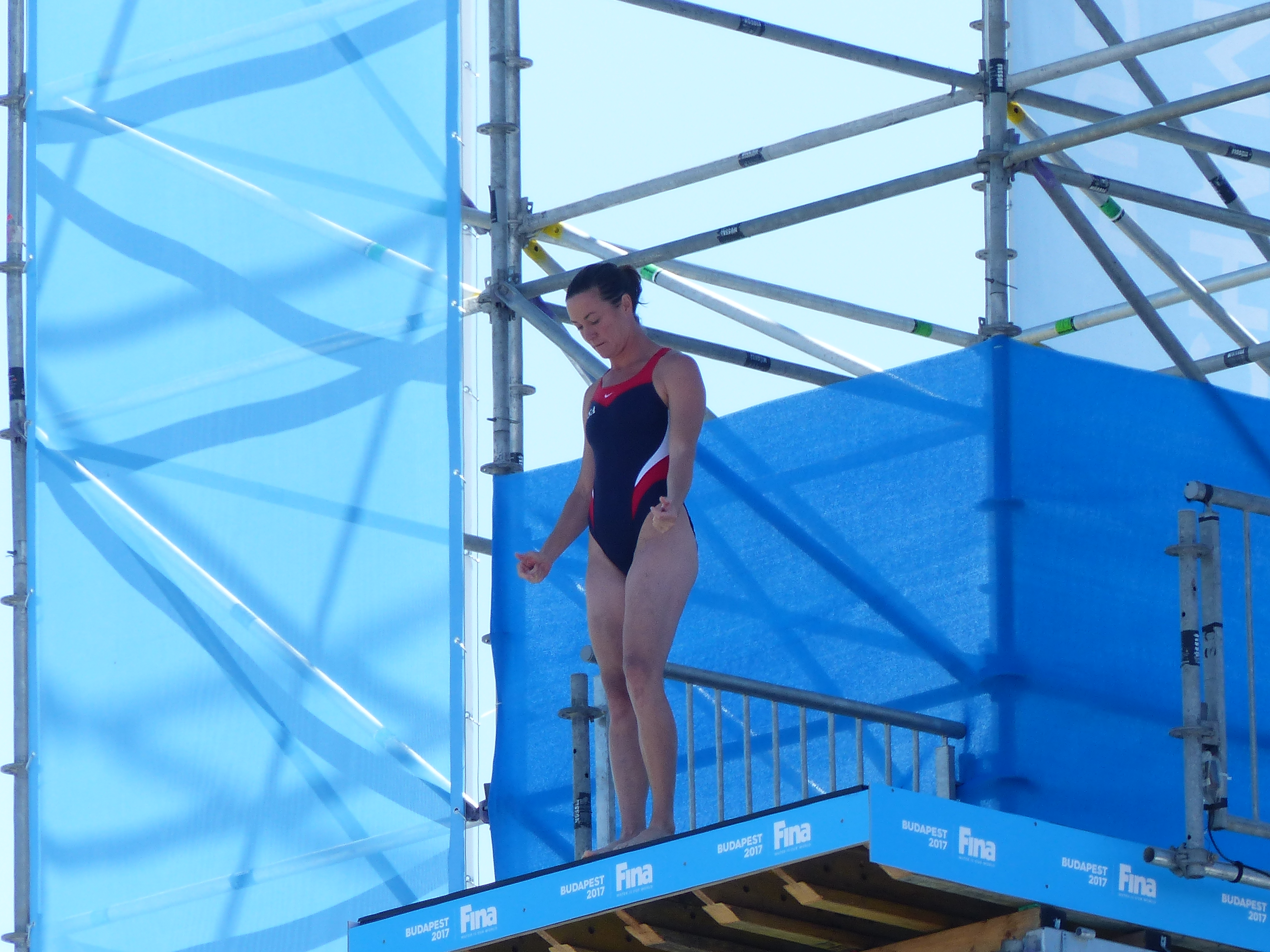 Ginger Huber. Taken on Saturday, 29th of July, 2017. 2017 World Aquatic Championships, Budapest, Hungary, Central Europe. Women’s 20m High Dive Final Resultsː Rhiannan Iffland, AUS, 320.70, Adriana Jimenez, MEX, 308.90, Yana Nestsiarava, BLR, 303.95, Tara Tira, USA, 299.50, Anna Bader, GER, 283.40